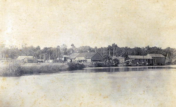 Lumber mill and fiber factory at Gulf Hannock